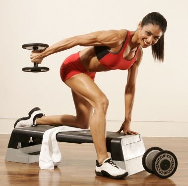 Picture of Lyen Wong, same as in German Wikipedia article.